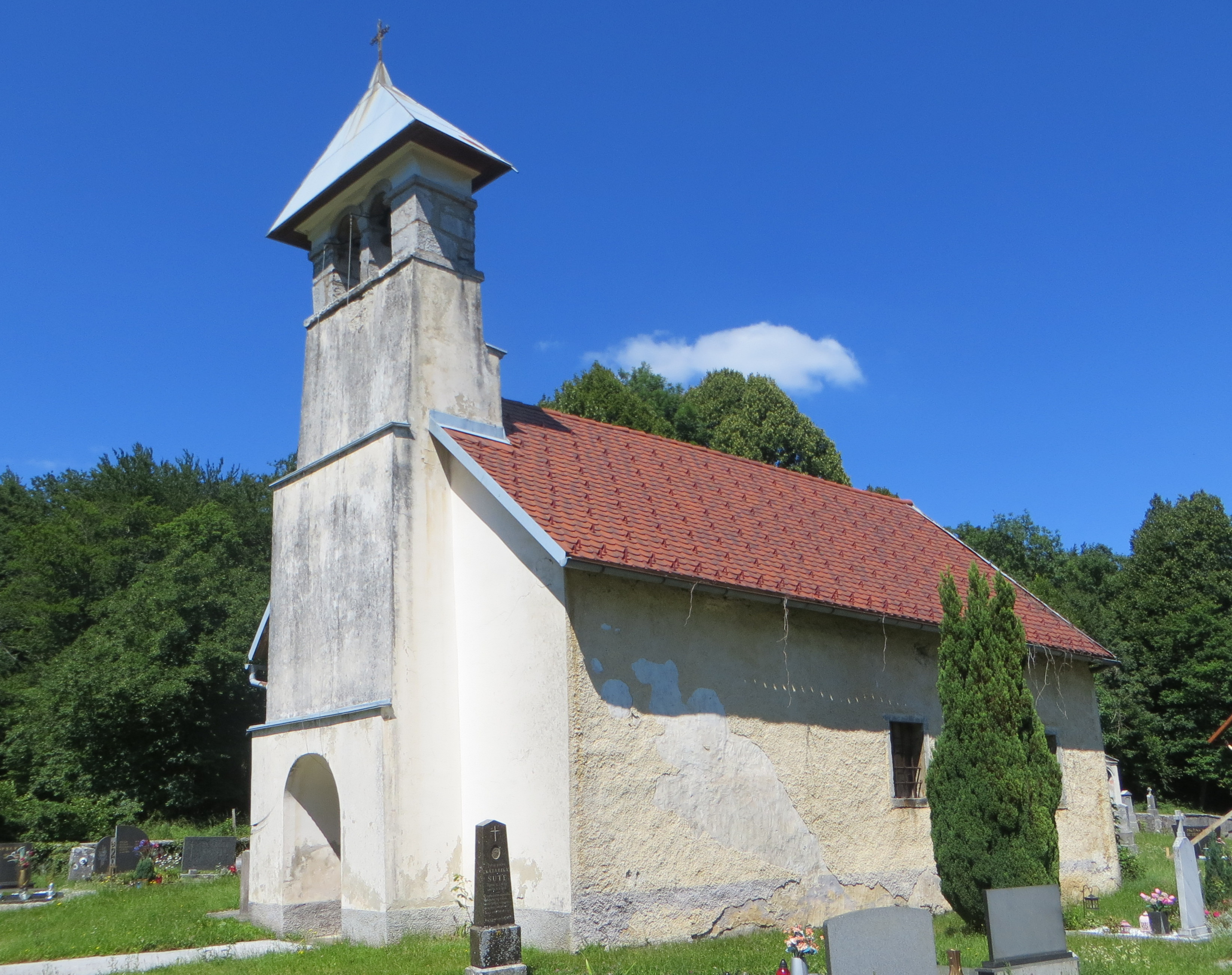 Saint Nicholas's Church in Videm, a hamlet of Knežja Lipa, Municipality of Kočevje, Slovenia